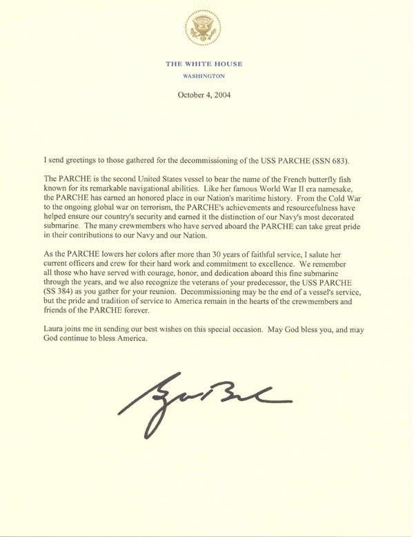 Decommissioning letter signed by President George W. Bush, dated 4 October 2004.